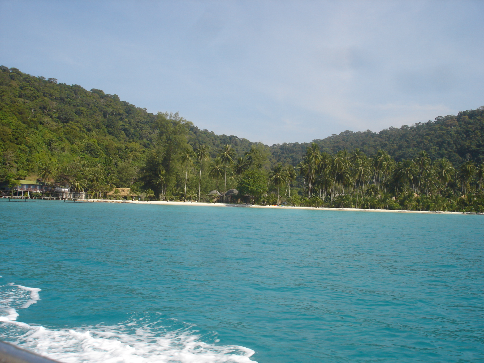 a beach in Ko Kut, Trat Province, Thailand